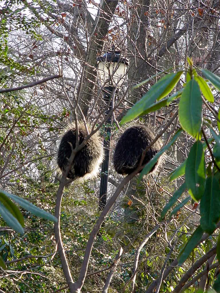 Two Porcupines (Erethizon dorsatum) sunning themselves in Winter. They may be found on the Discovery Trail of Prospect Park Zoo, New York.